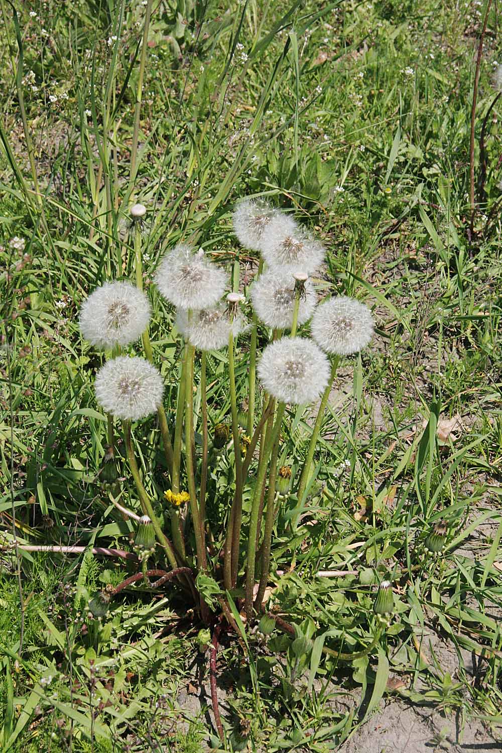 Taraxacum officinale Web. - Dandelion clock autor:Prazak